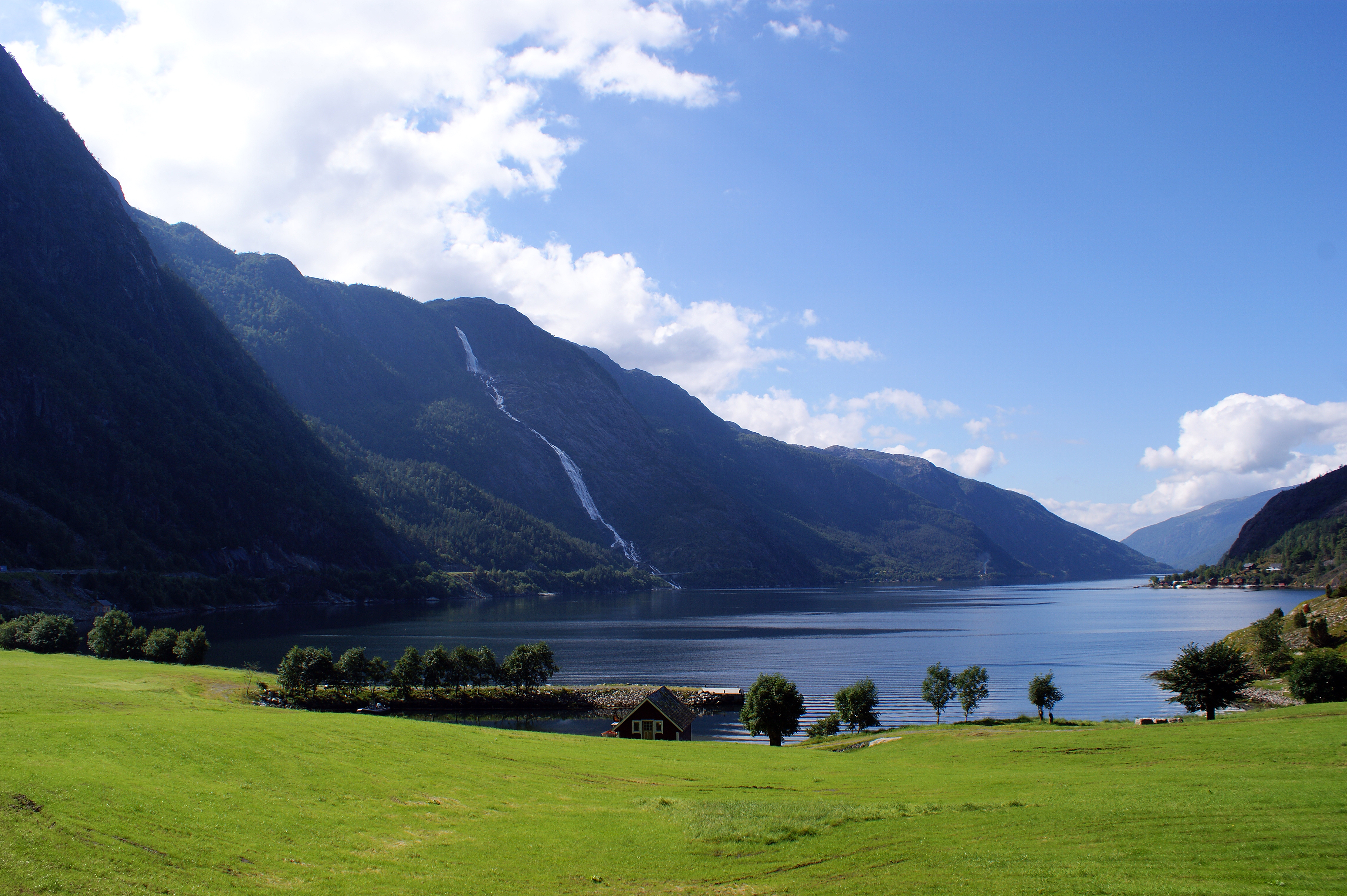 From Åkrafjorden with the waterfall Langfoss.